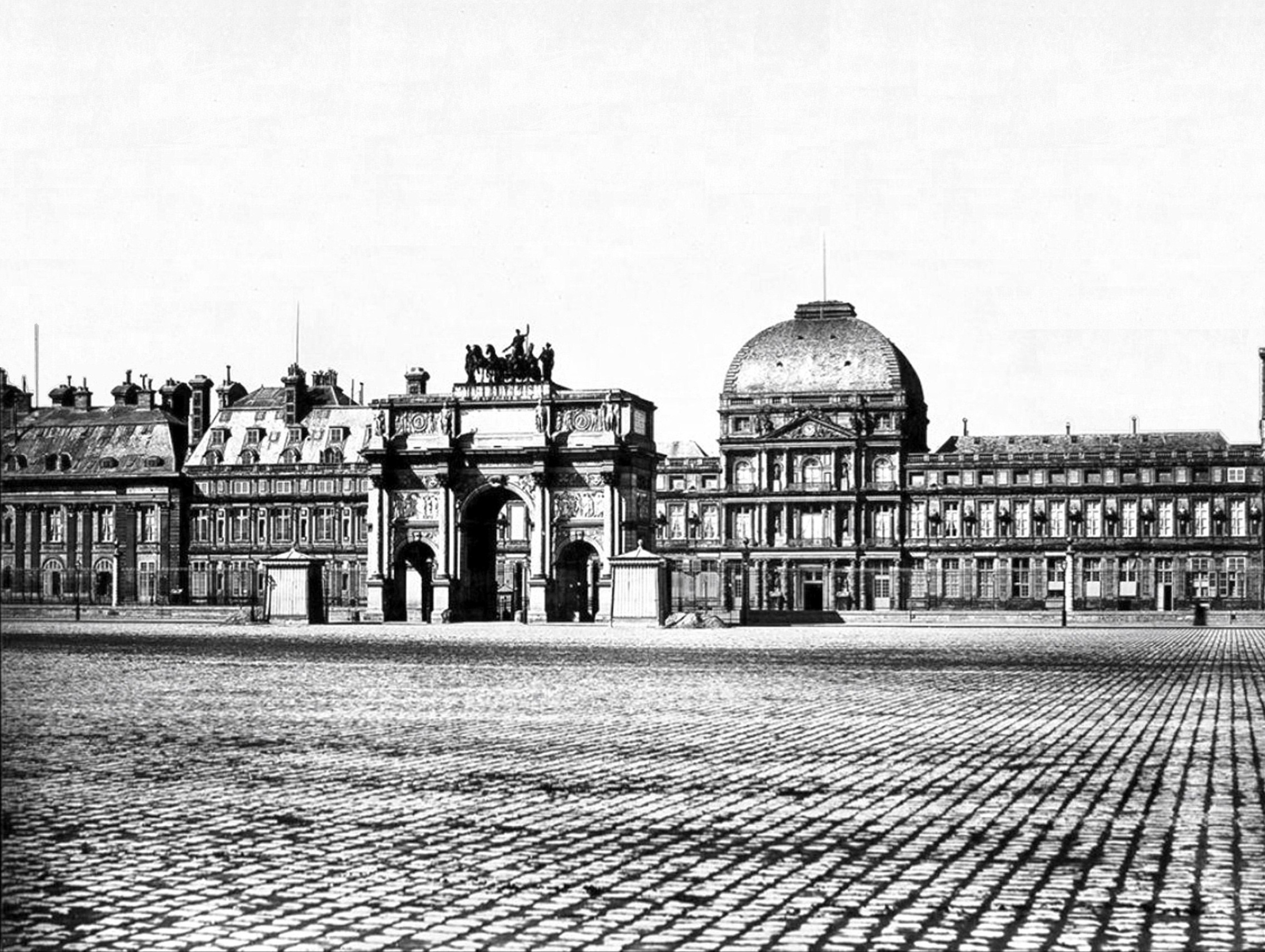 Tuileries Palace, Place du Carrousel, Arc de Triomphe and East Facade, Paris, 1856, by Gustave Le Gray. Rare photograph. Albumen print from wet plate negative umounted.